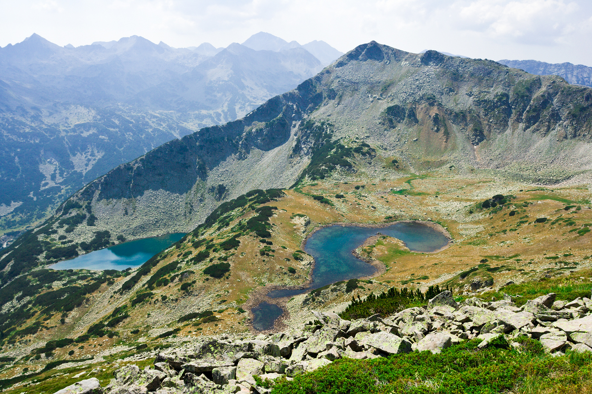 Tipicki lakes, Pirin mountain, Bulgaria